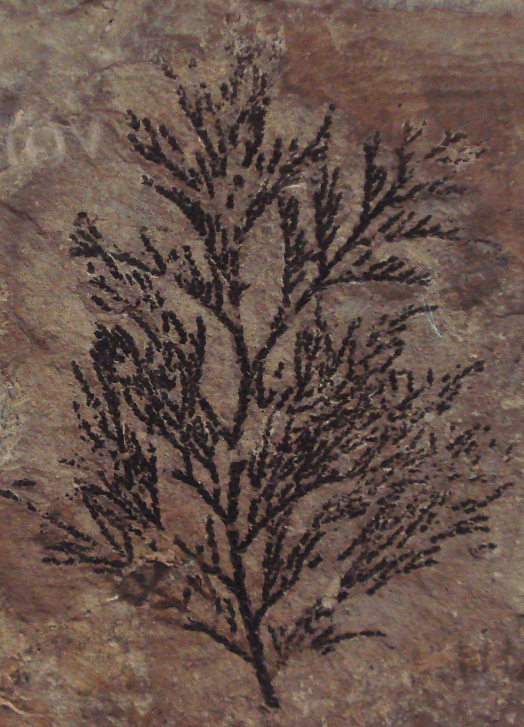 fossil of widdringtonites